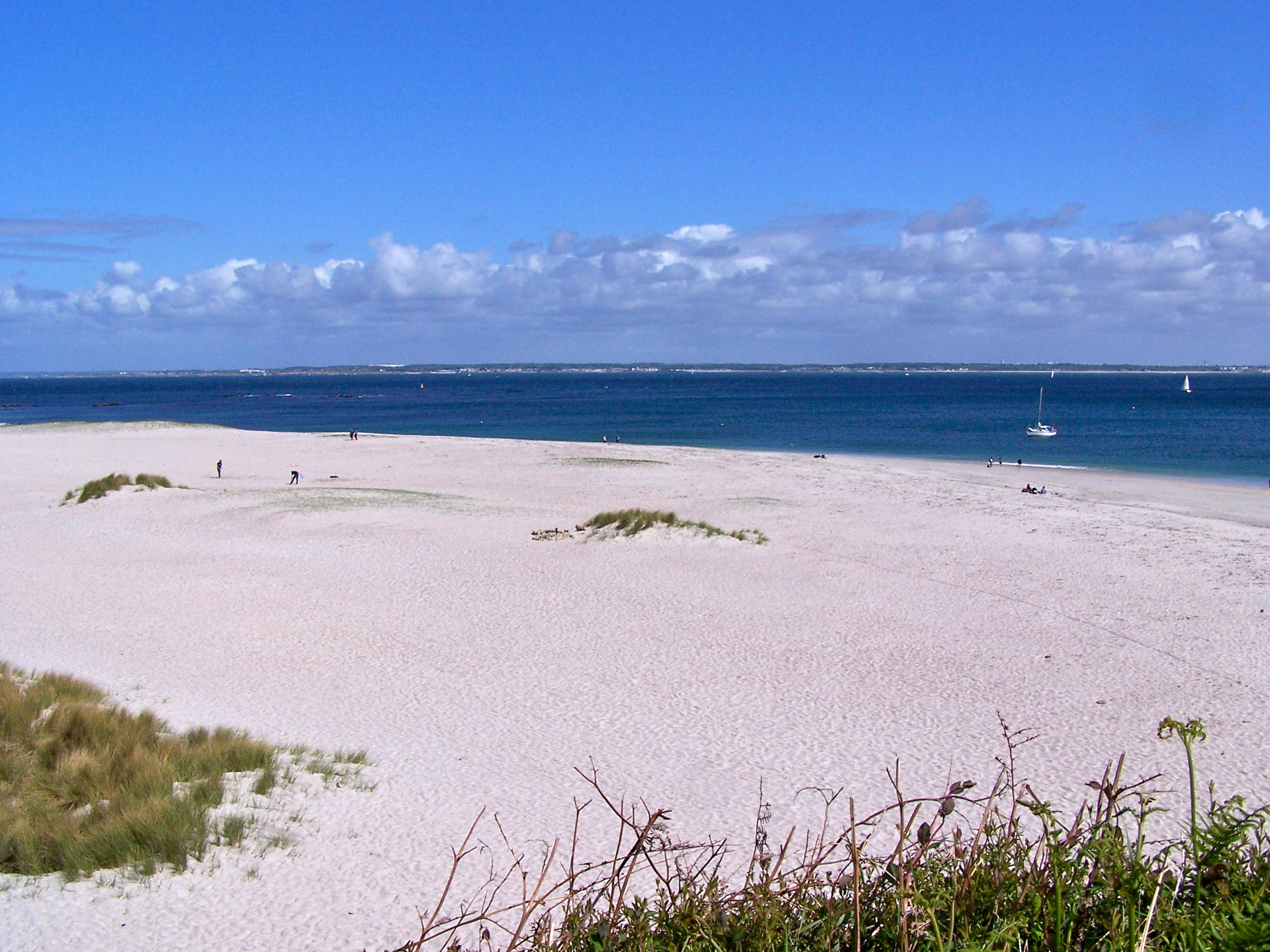 Plage des Grands Sables à Groix